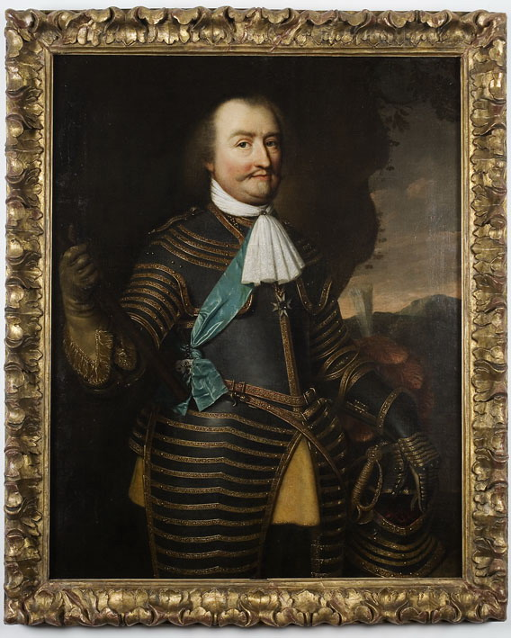 Portrait of John Maurice, Prince of Nassau-Siegen (1604-1679)